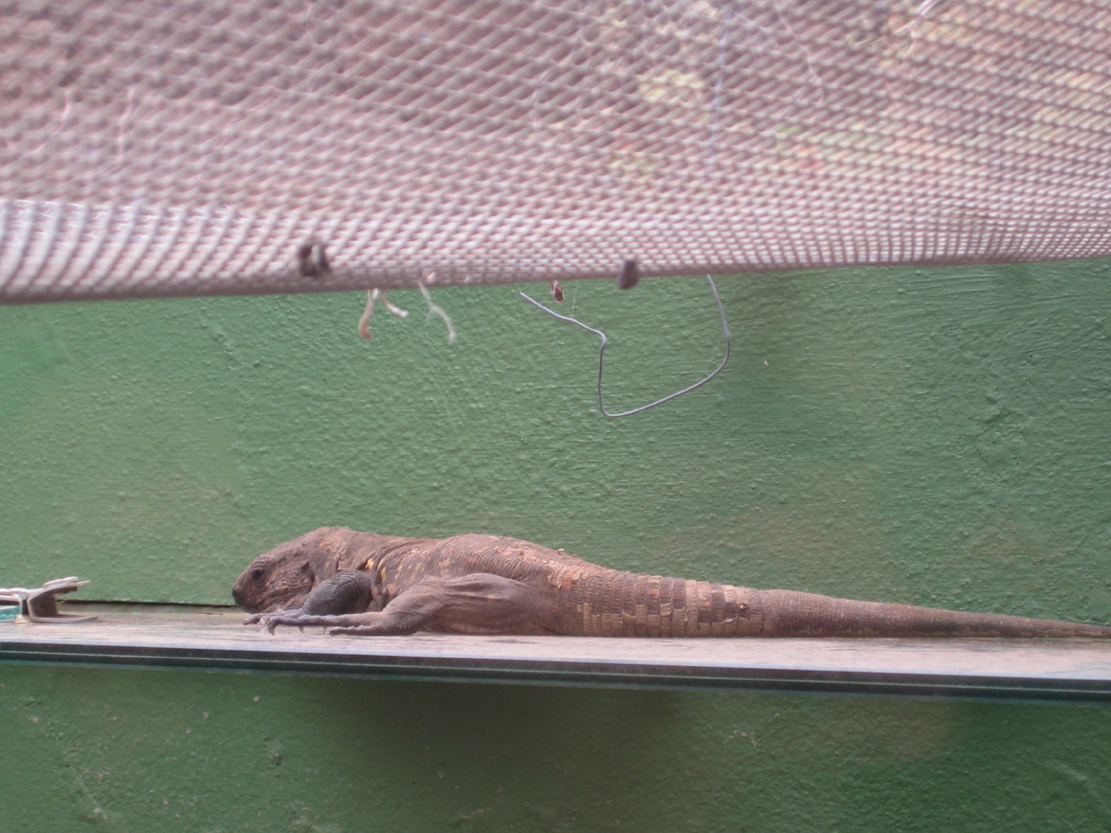 El Hierro giant lizard. Photograph taken at the Lagartario de Guinea.